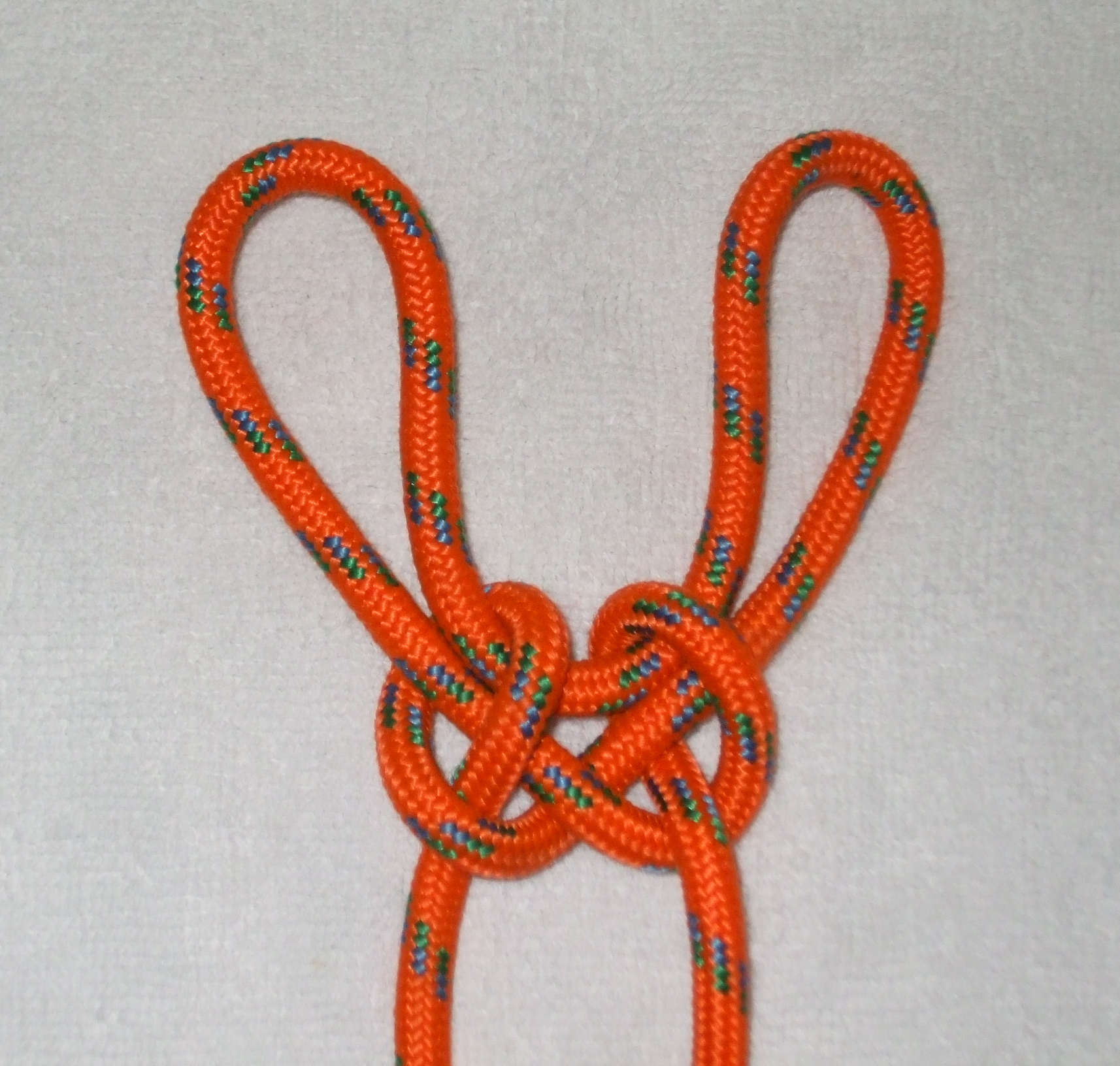 upper as ~double loop.